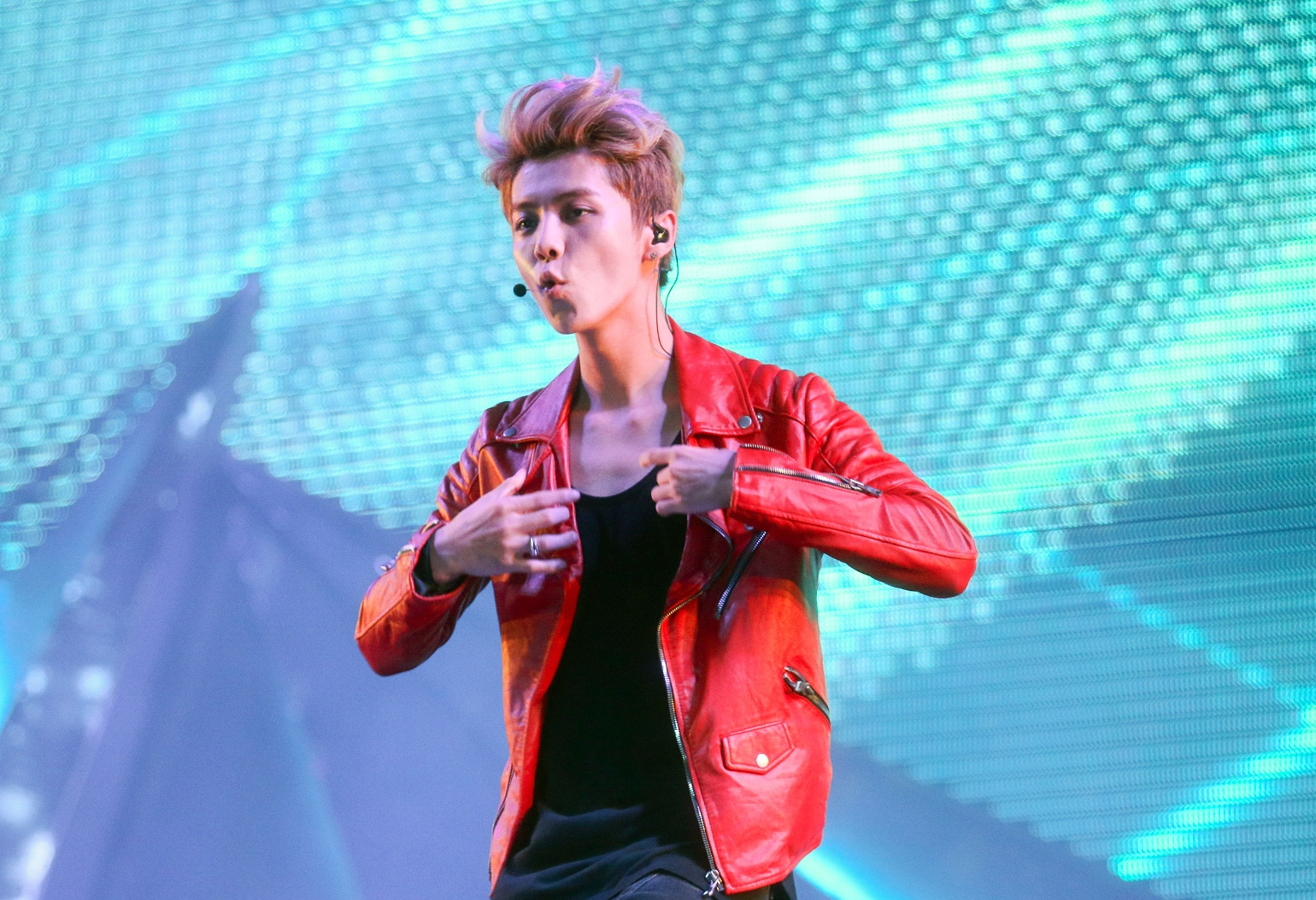 Luhan at the EXO The Lost Planet in Jakarta on September 6, 2014.